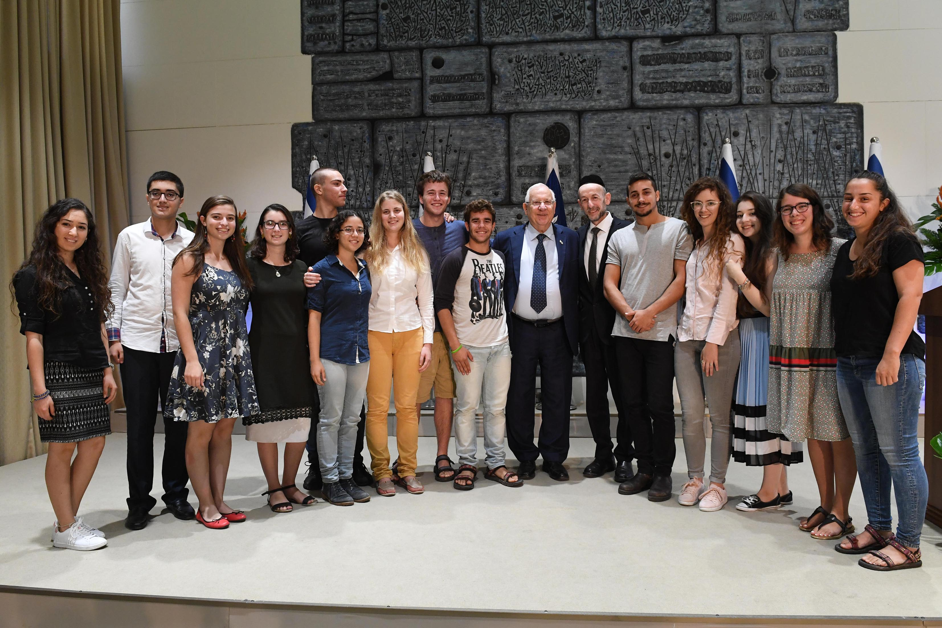 President of the State of Israel, Reuven Rivlin, at the event marking the 20th anniversary of the competition of young scientists and developers of Israel. Tuesday, October 3, 2017. Photo Credit: Mark Neyman / GPO.